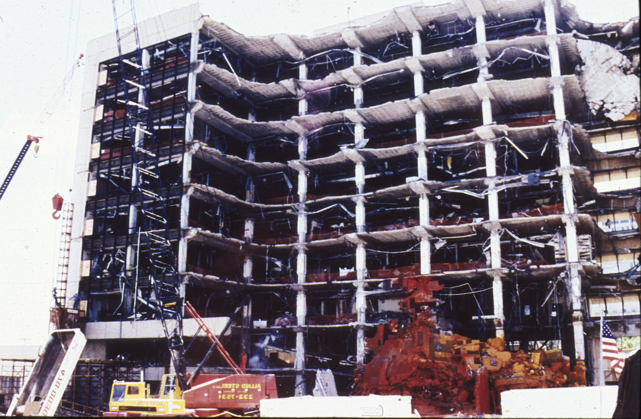 Oklahoma City, OK, April 26, 1995 -- A scene of the devastated Murrah Building following the Oklahoma City bombing. FEMA News Photo